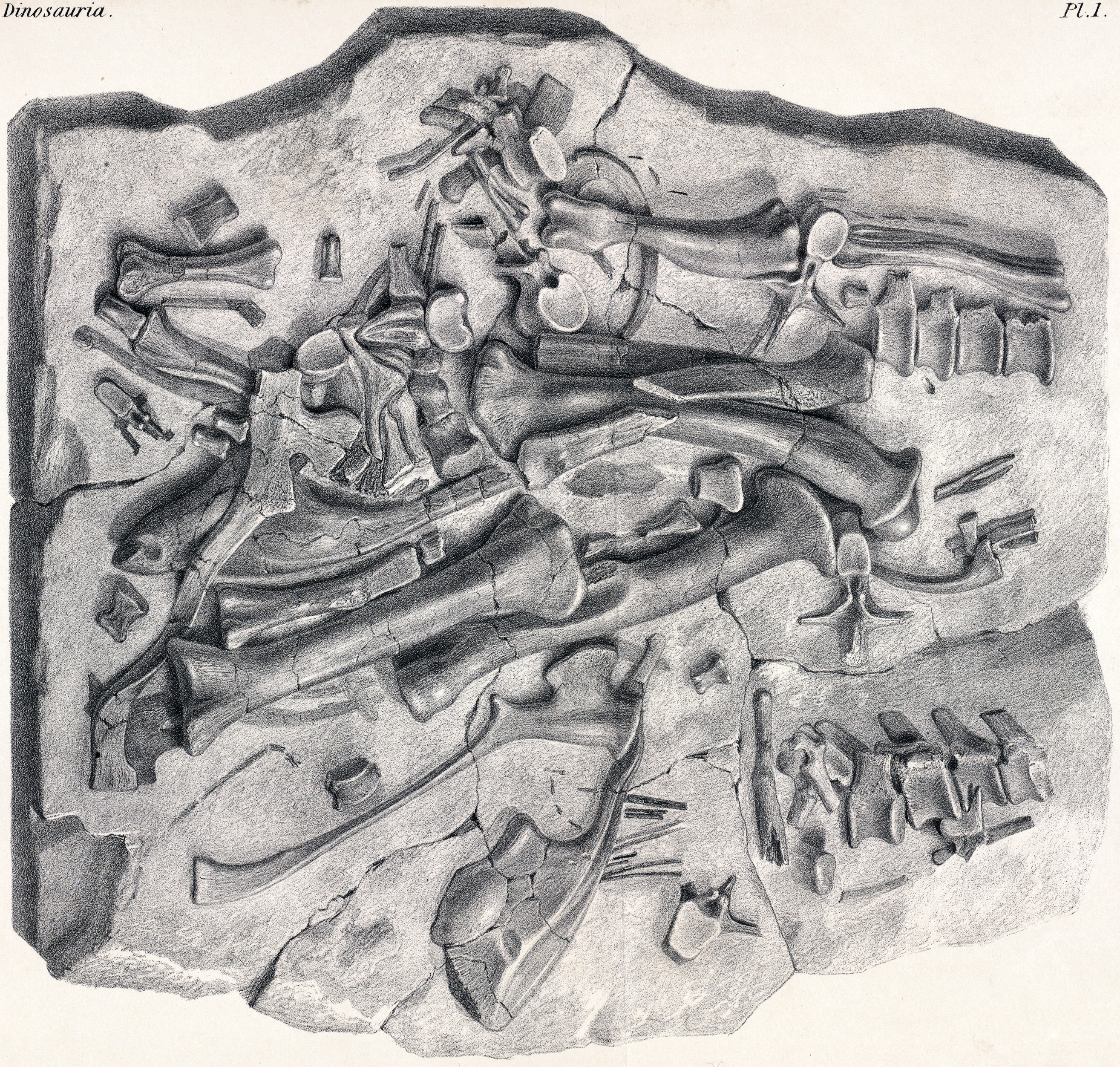 Iguanodon Mantelli, scale of 2 inches to a foot. A considerable portion of the skeleton in a block of the Kentish Rag variety of the Green-sand Stone Formation. Discovered by Mr. Bensted, of Maidstone. In the Collection of the British Museum.